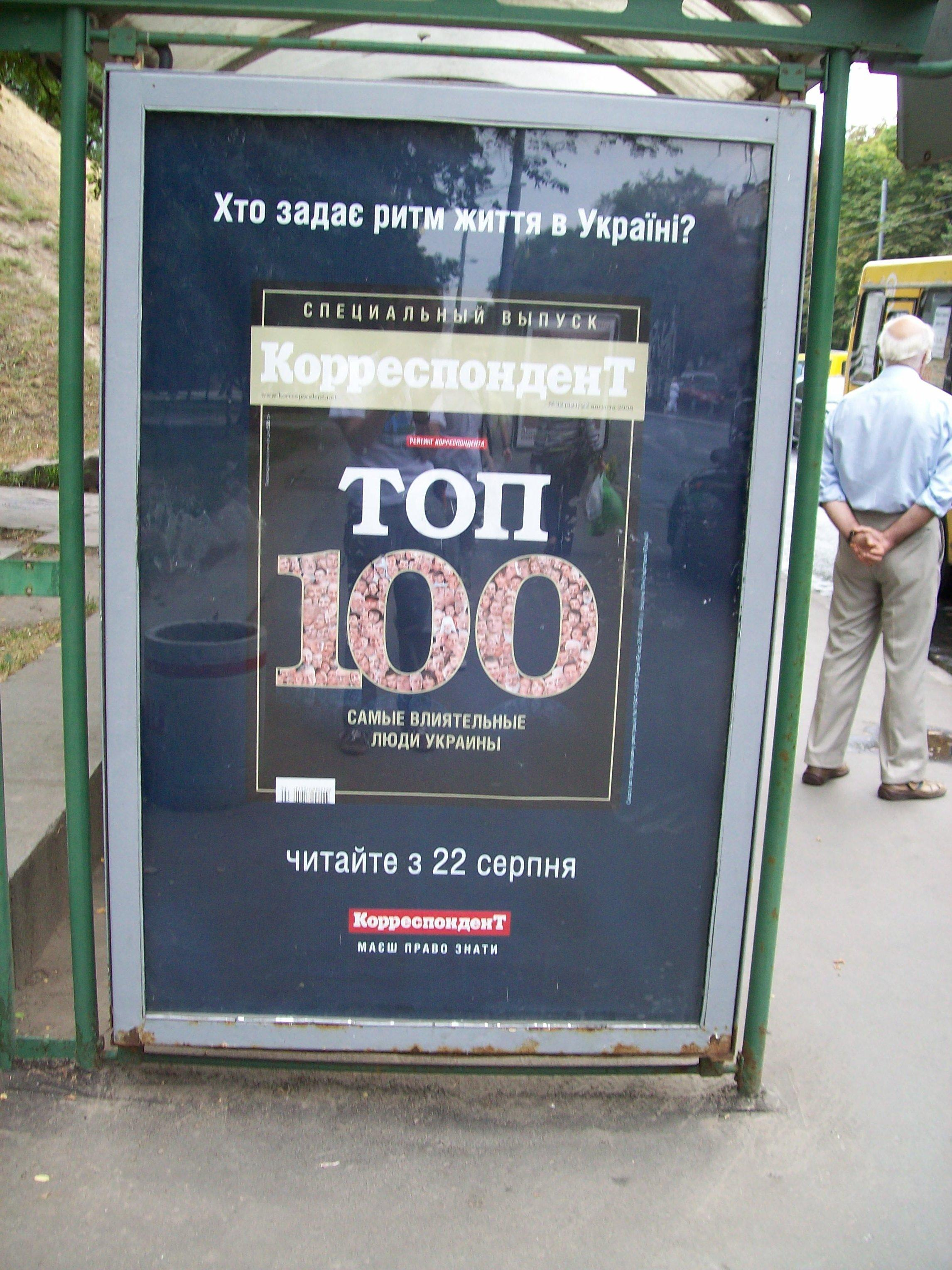 Since 2003 Ukrainian magazine Korrespondent ranks the 100 most influental individuals who significantly influenced economic, business, political or societal development in Ukraine during the year. Street advertisement in Kyiv for this years top 100, summer 2008.